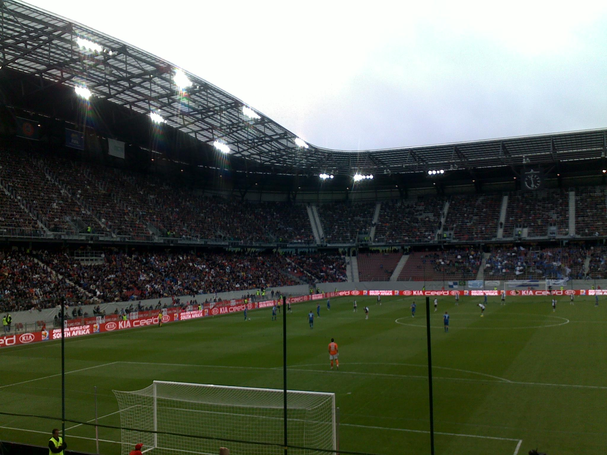 The Cup-Final 2010 in Klagenfurt between Sturm Graz and Magna Wiener Neustadt.